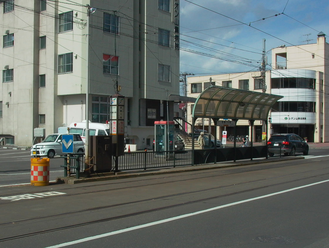 Nishisen Juyojo station, Sapporo, Hokkaido, Japan